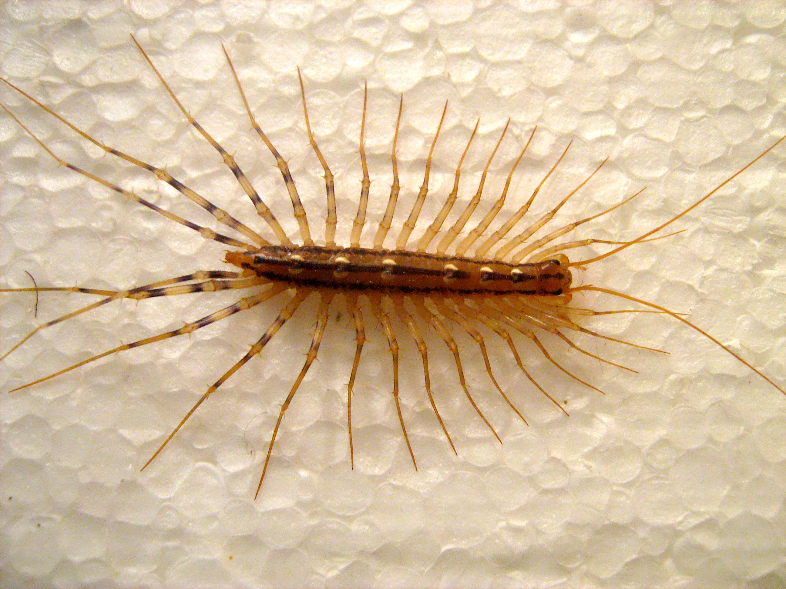 A grown house centipede (Scutigera coleoptrata).